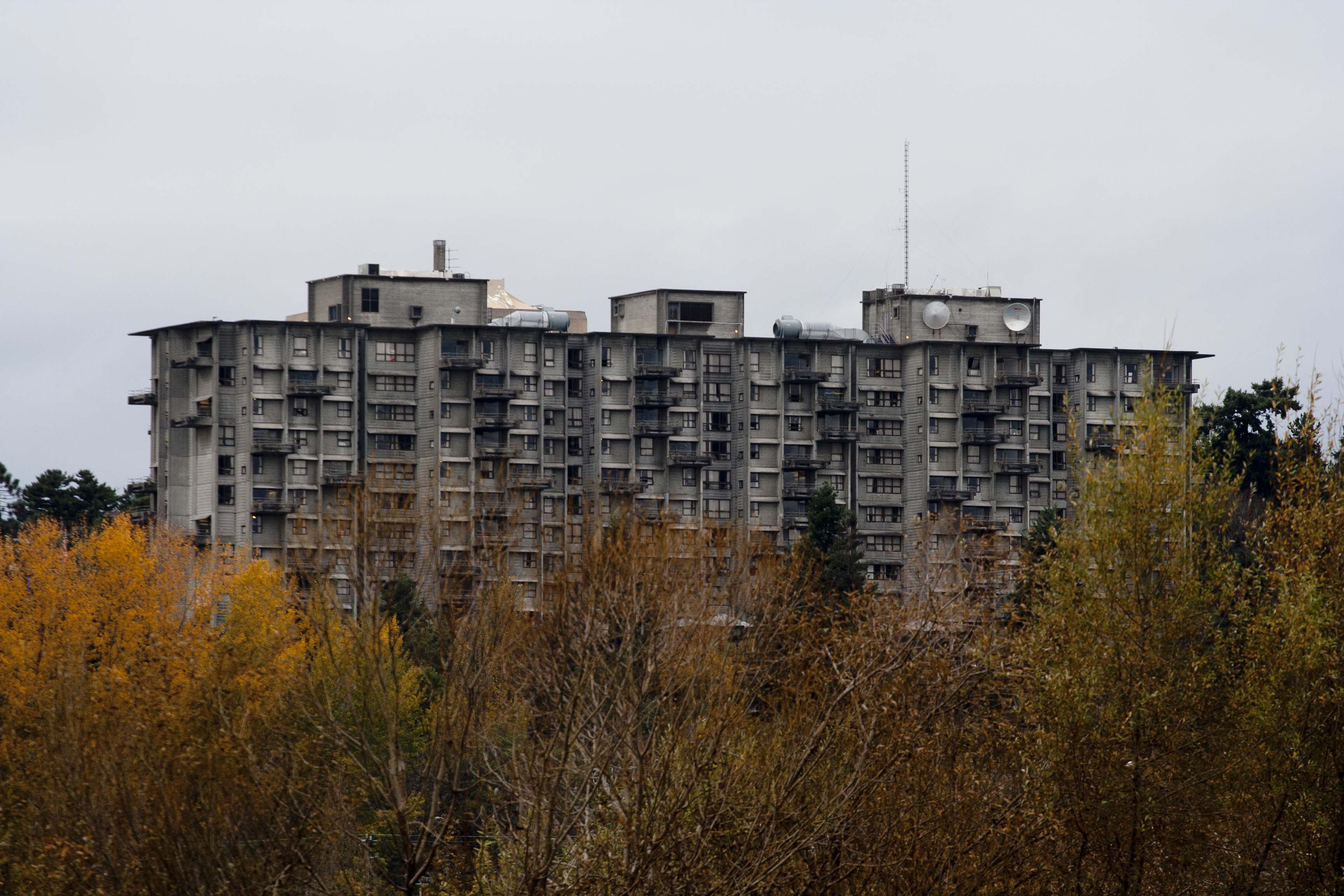 McMahon Hall, University of Washington, November 2010